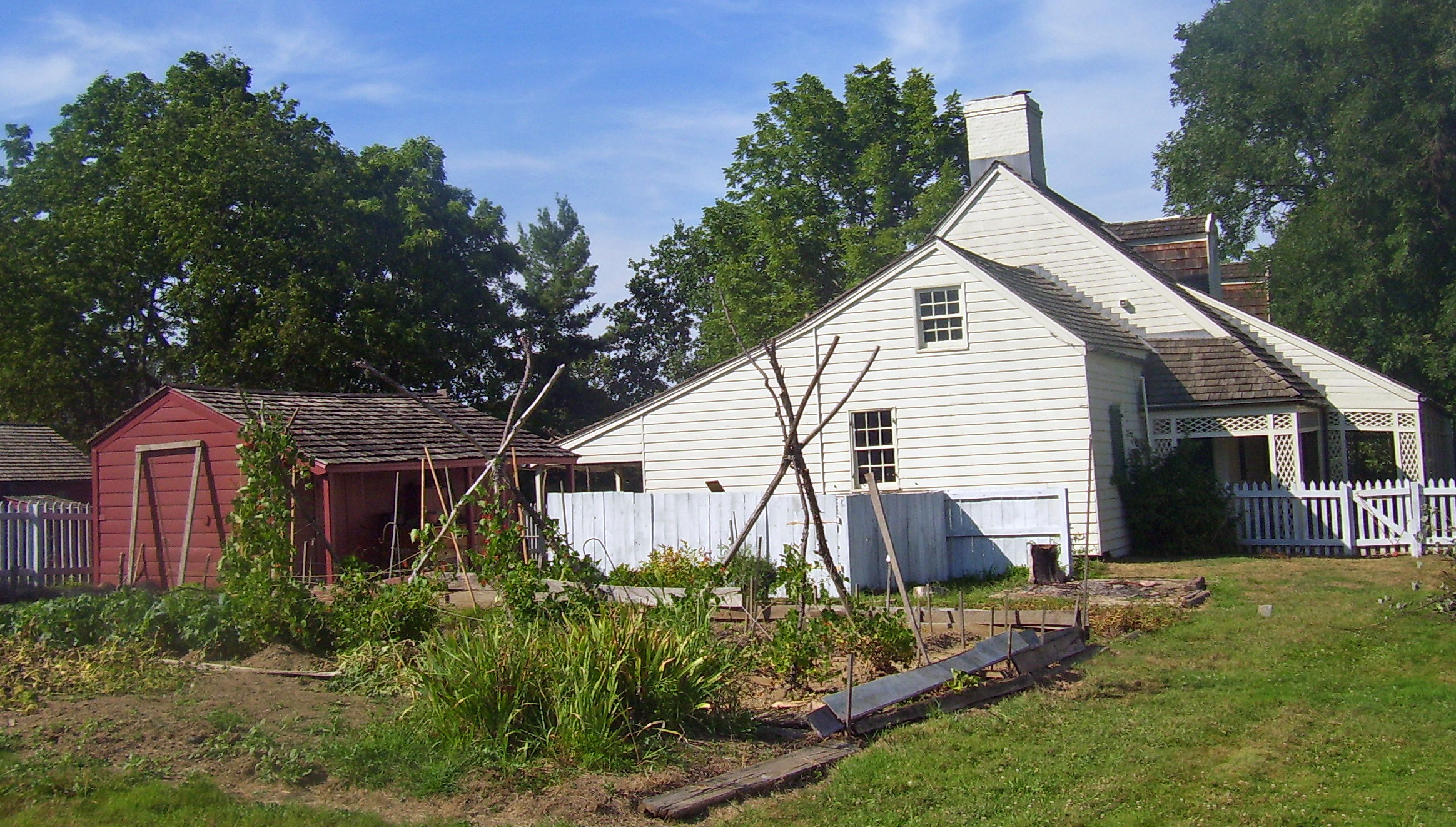 Woodville, 1785 home of John Neville, near Heidelberg, PA, USA